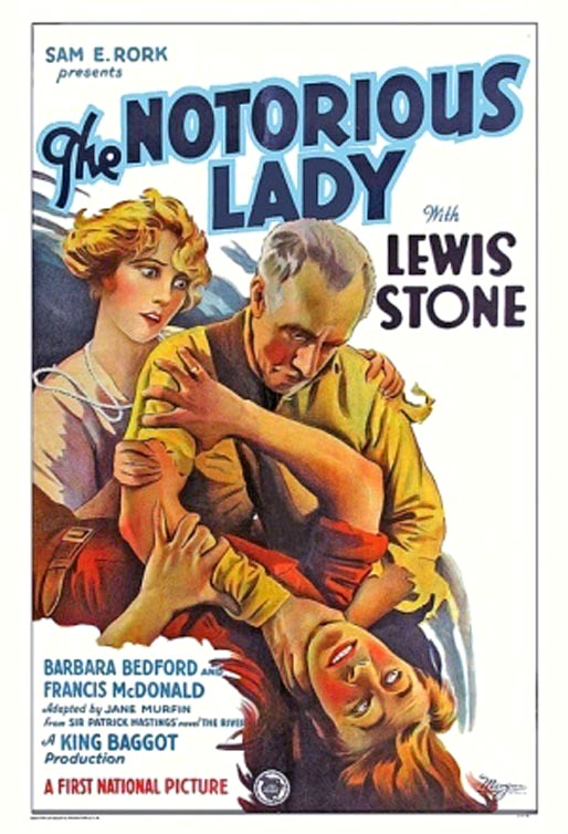 Poster for the 1927 film The Notorious Lady. There are no copyright marks on the item. At lower left is Country of origin & production USA. At lower right is the Morgan Litho Company, Cleveland, logo--they printed the poster and letters & numbers which appear to be related to the printing of the poster.